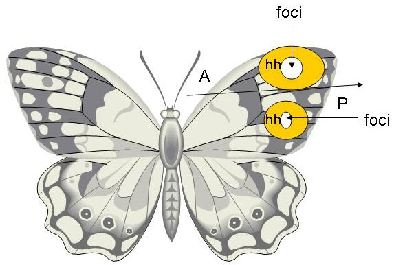 Developing foci in both the anterior and posterior portions of the wings of some butterflies. A focus is an area which controls the development of some morphological feature, here pigmentation, during embryo development. Yellow circles indicate areas of increased hedgehog (Hh) gene expression.